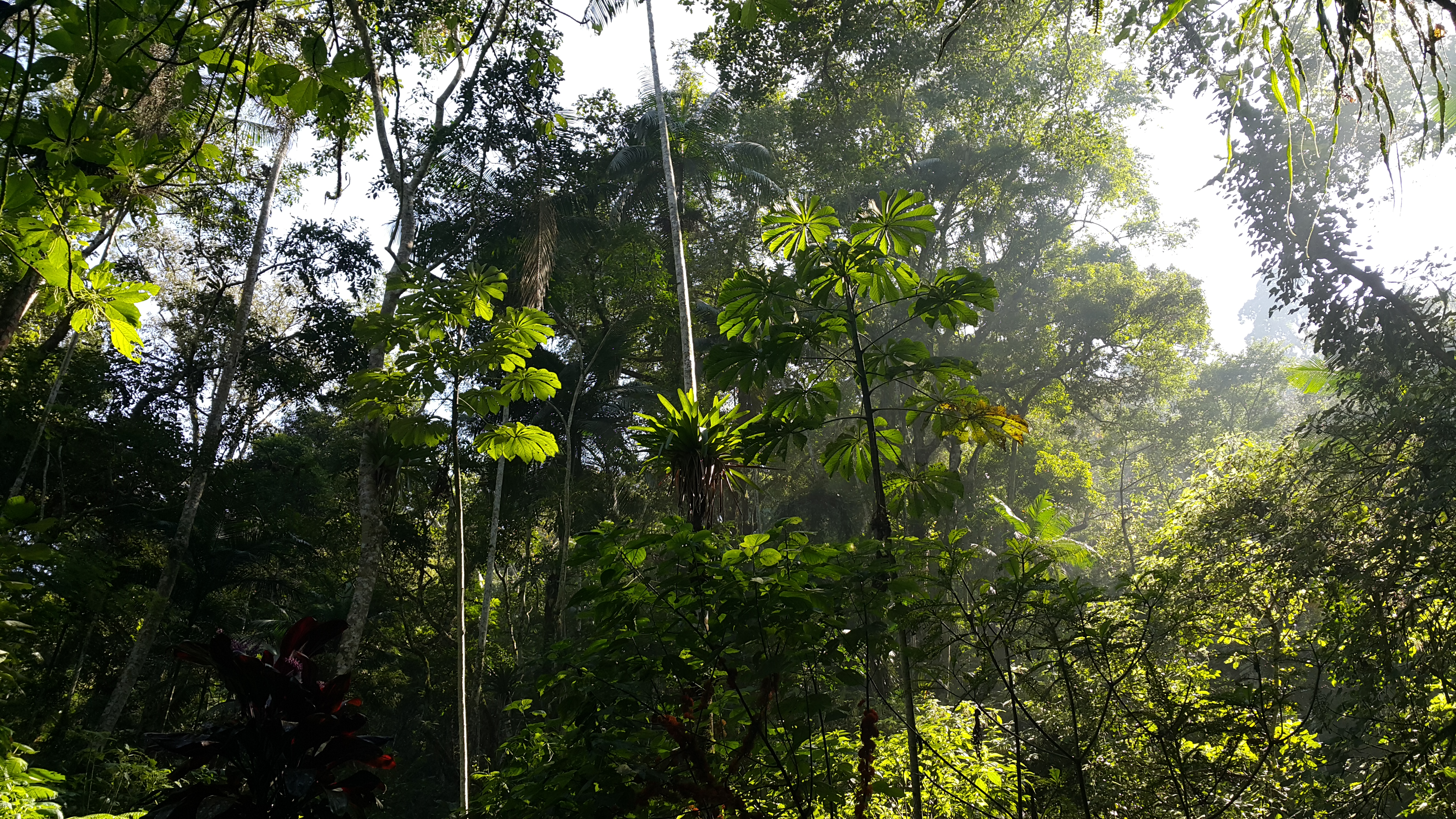 Two Cecropias seen from the Caixa D'Água trail, in Trabiju Municipal Nature Park in Pindamonhangaba, São Paulo, Brazil.